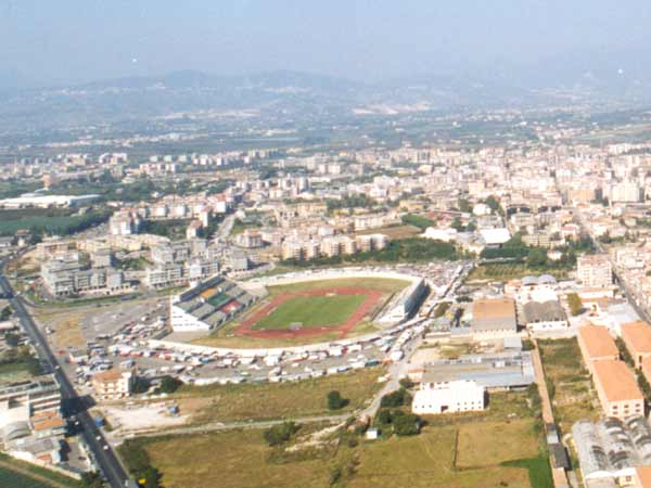 The Stadium "Luigi Pastena" of Battipaglia (Campania, Italy).